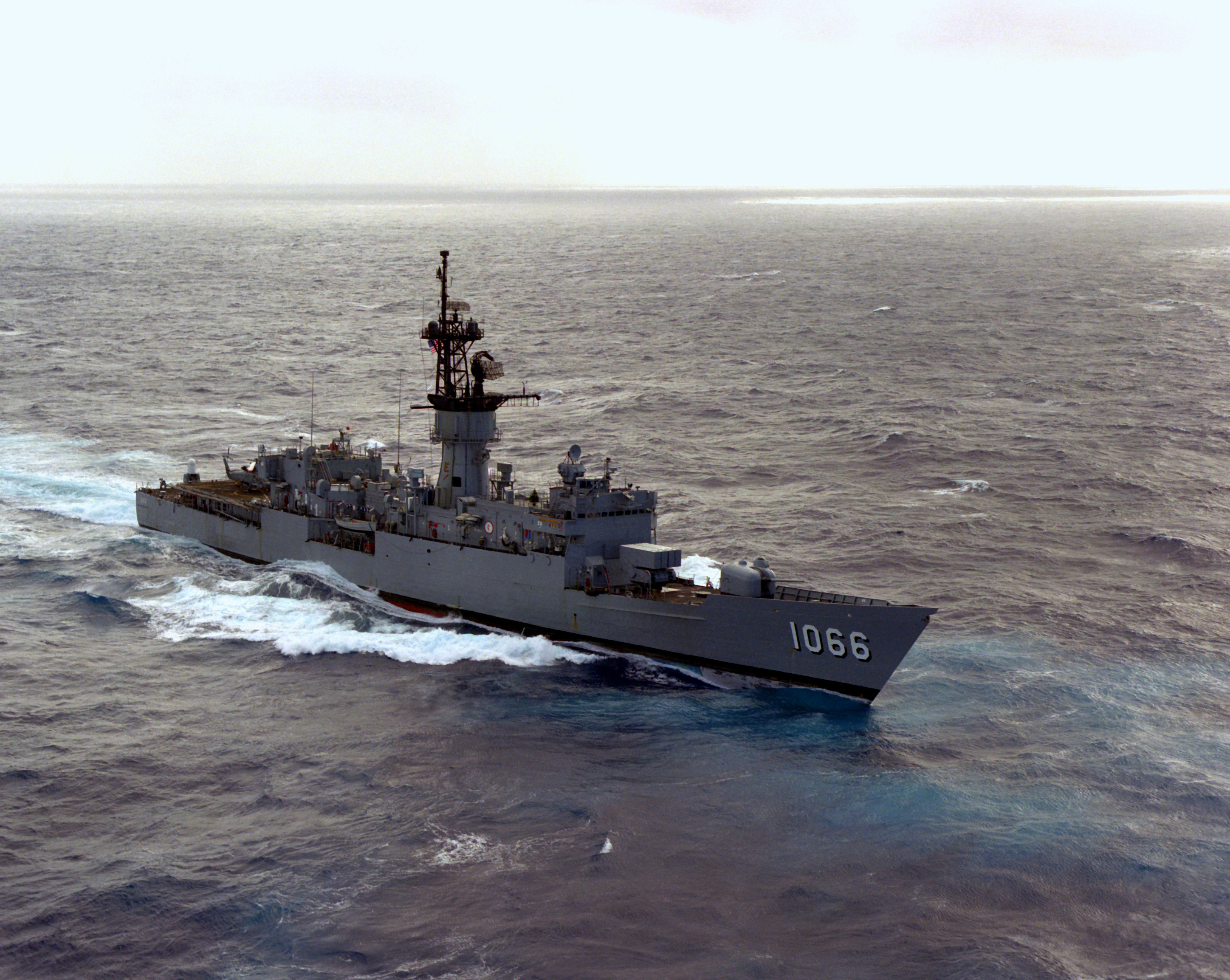 The U.S. Navy frigate USS Marvin Shields (FF-1066) underway in the Pacific Ocean on 16 December 1988.